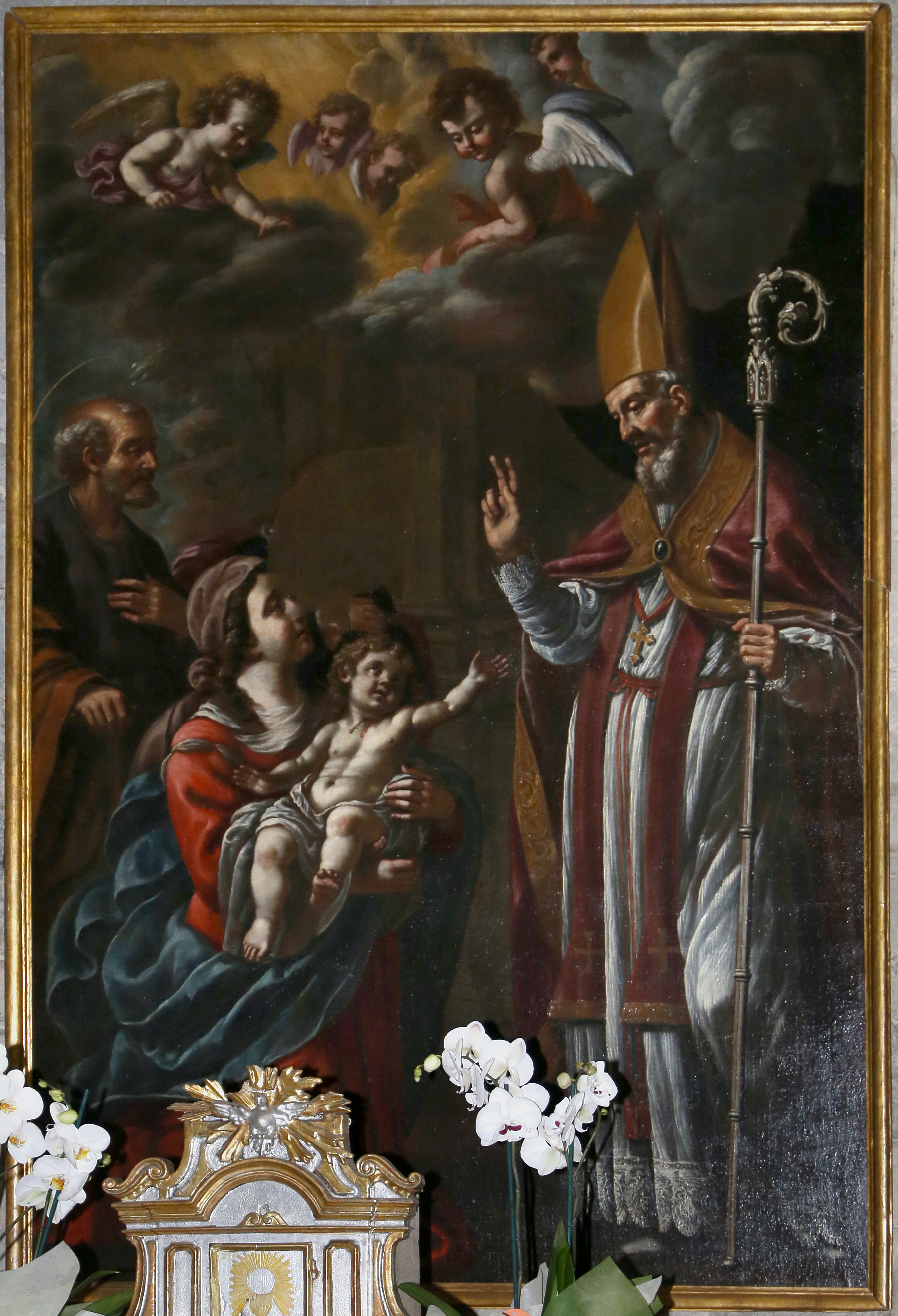 San Bartolomeo in Pantano (Pistoia) - Interior